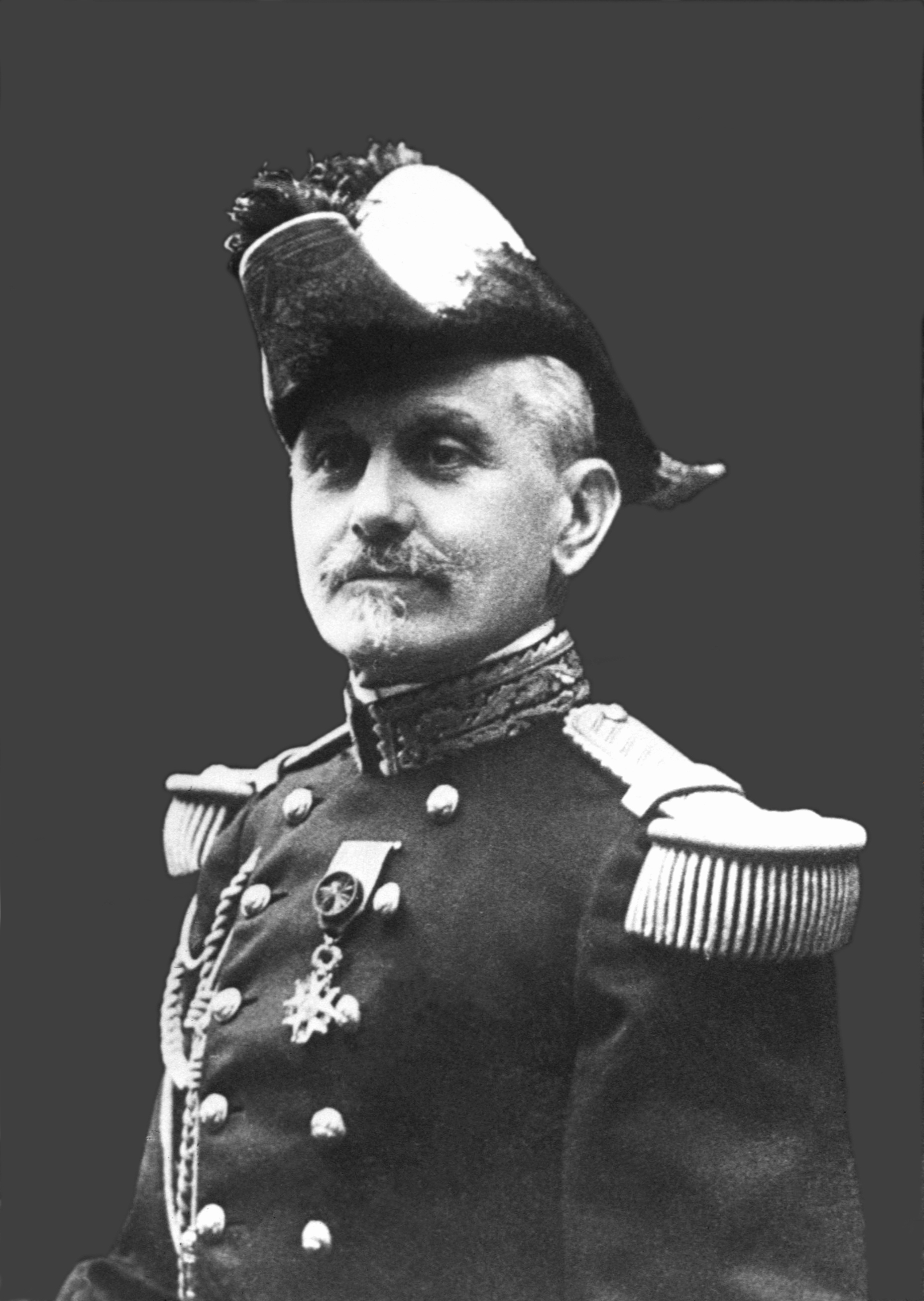 General Michel Joseph Maunoury (1847 - 1923), Marshal of France.